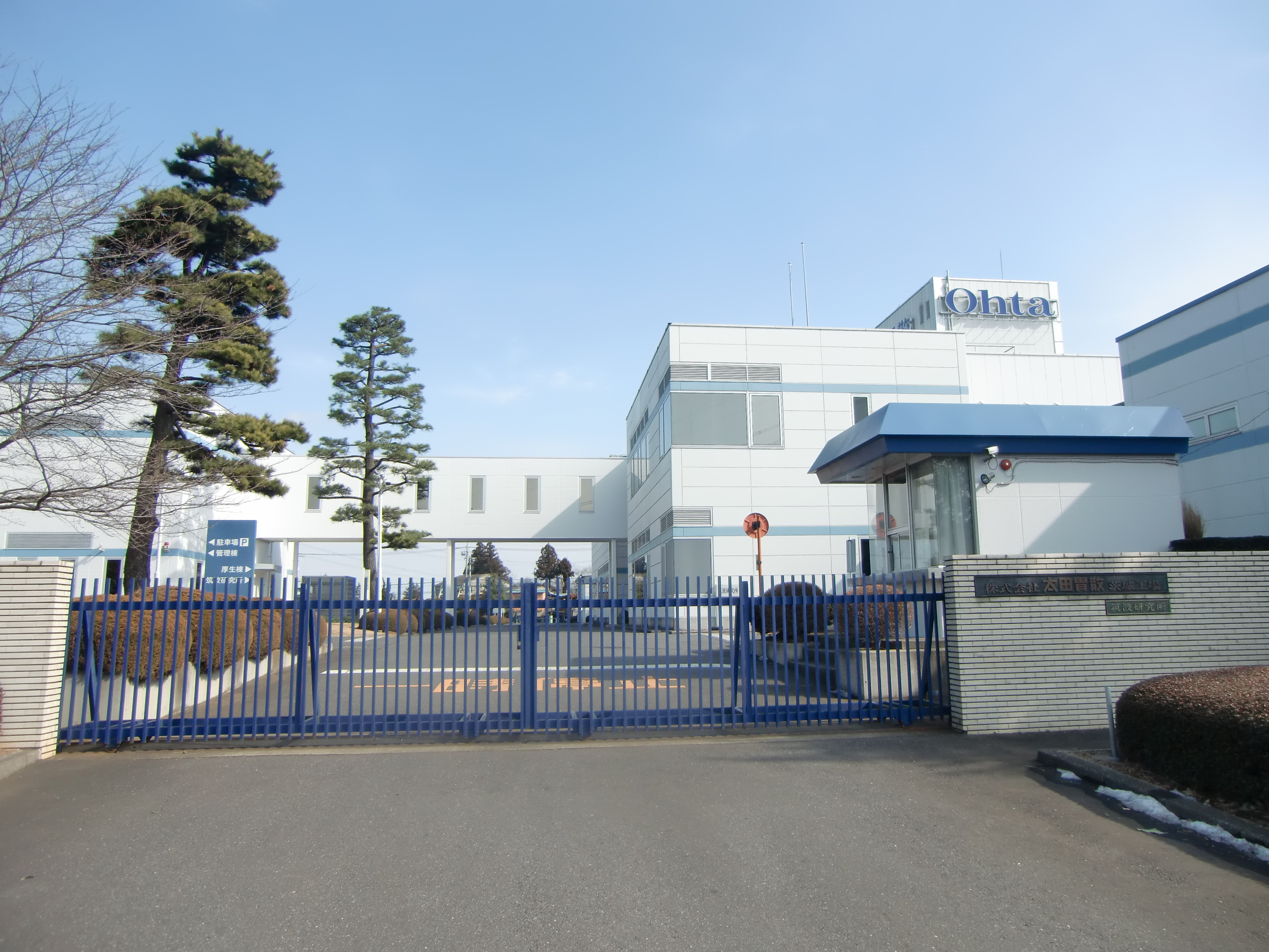 Ohta's Isan Co., Ltd. Ibaraki Factory/ Tsukuba Reserch Center in 957, Shishiko-chō, Ushiku City, Ibaraki pref., Japan.